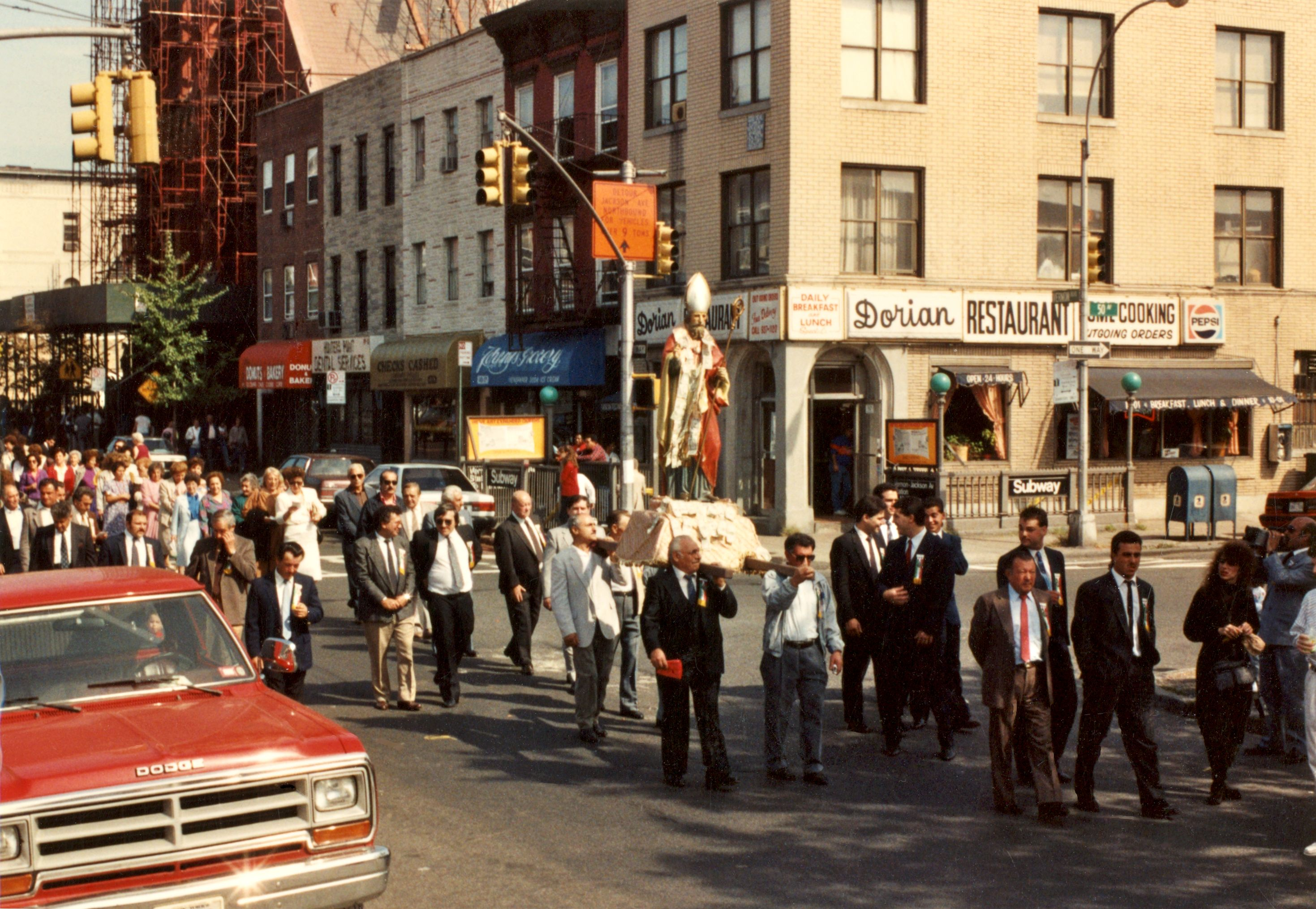 Religious procession crossing 50th Avenue in Hunters Point, Queens, 1989 Other information Photo by George Garrigues.